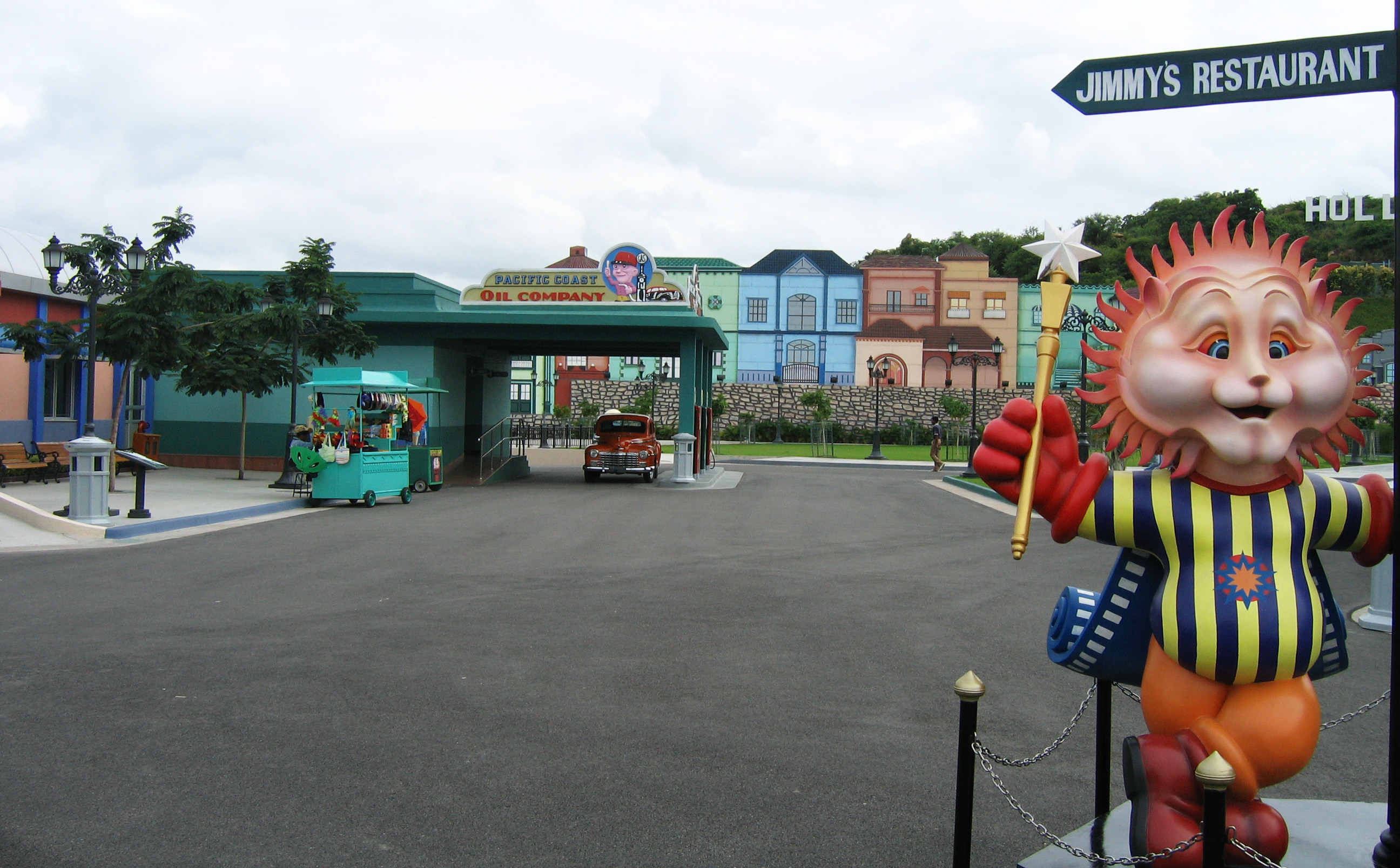 Ramoji Film City, Hyderabad - views from Ramoji Film City